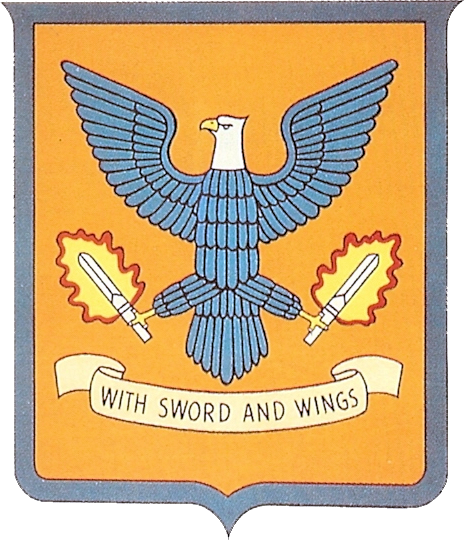 358th Fighter Group - Emblem.